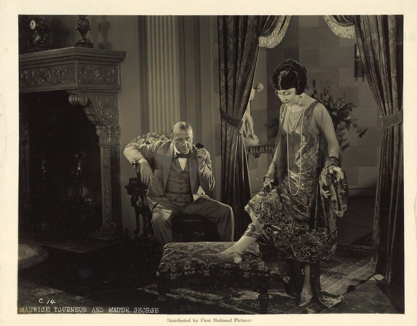 Torment (1924) publicity photo that clearly was published with no copyright notice.